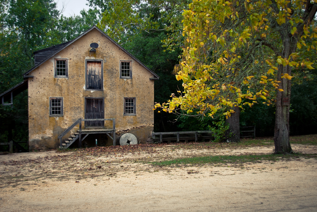 The water mill at Batsto Village